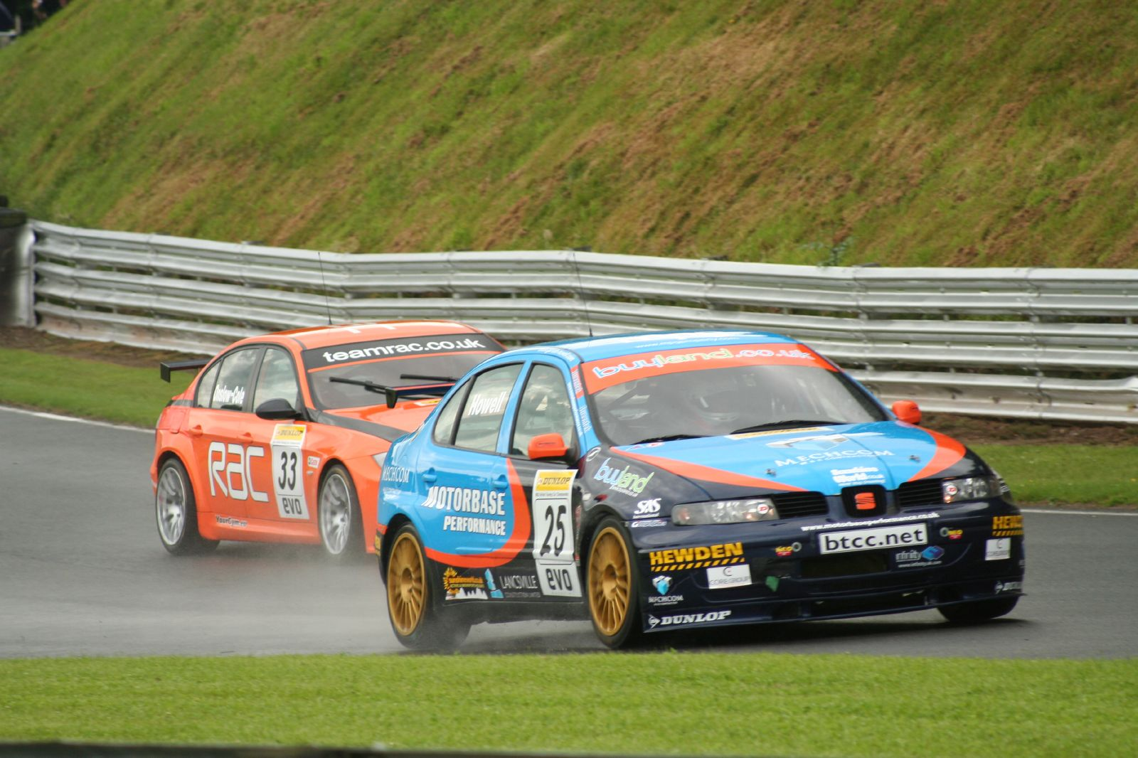 Gareth Howell driving for SEAT at the Oulton Park round of the 2007 British Touring Car Championship.